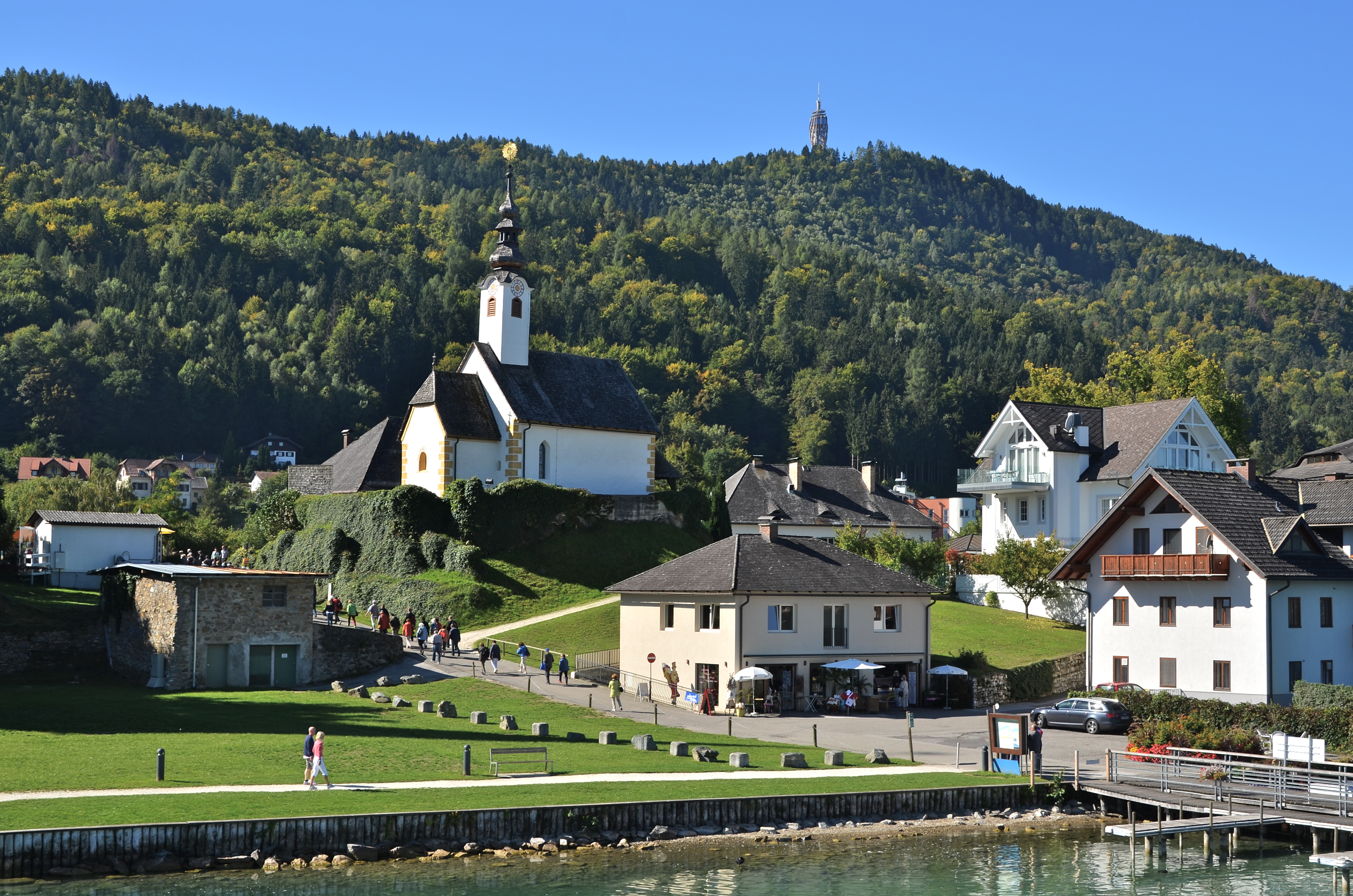 Rosary church in Maria Wörth with the Pyramid Ballon in the background, municipality Maria Wörth, district Klagenfurt Land, Carinthia, Austria, EU